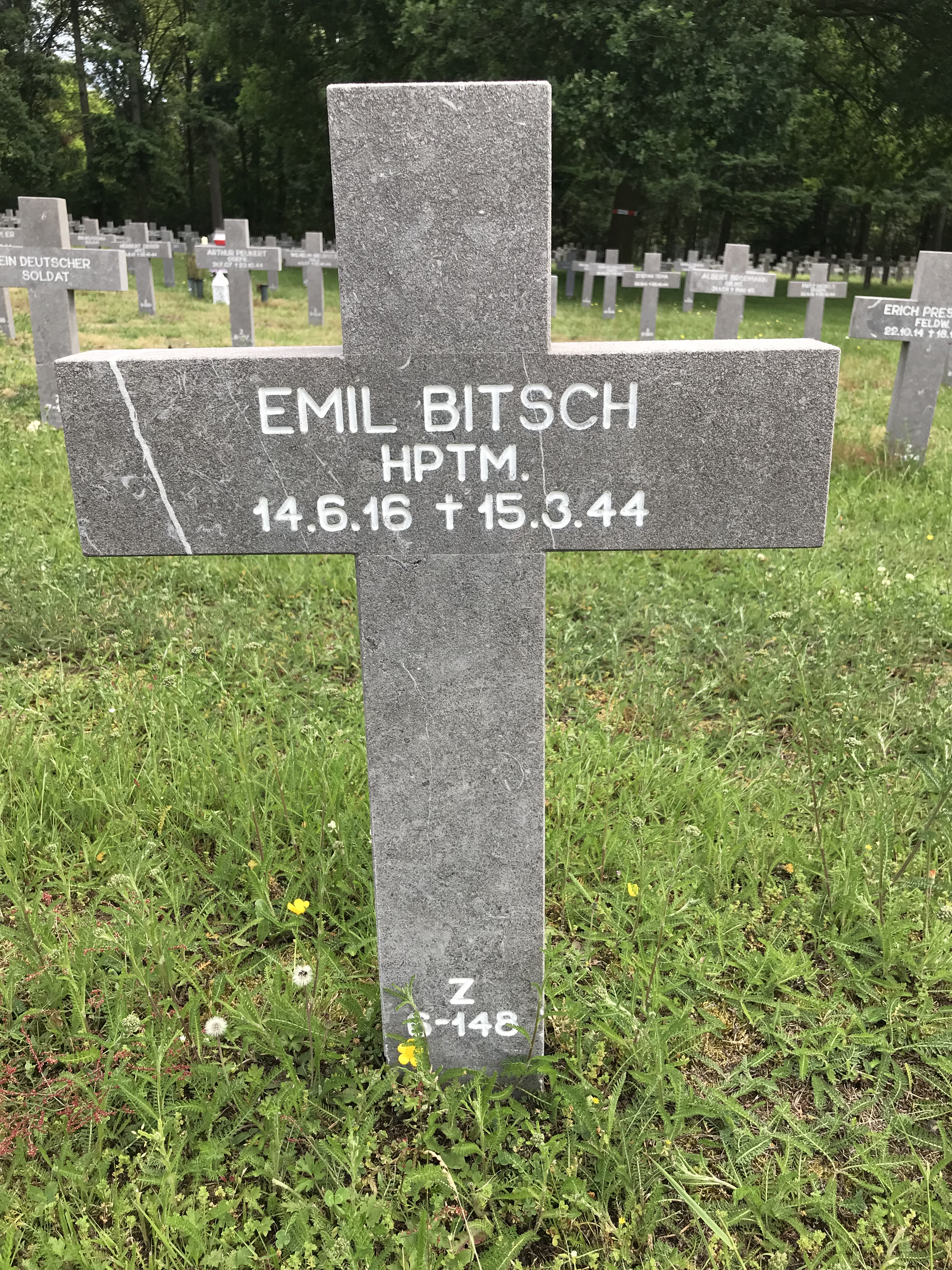 Grave of Emil Bitsch Z-6-148